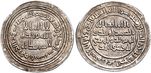 Coins of Sulayman ibn Abd al-Malik